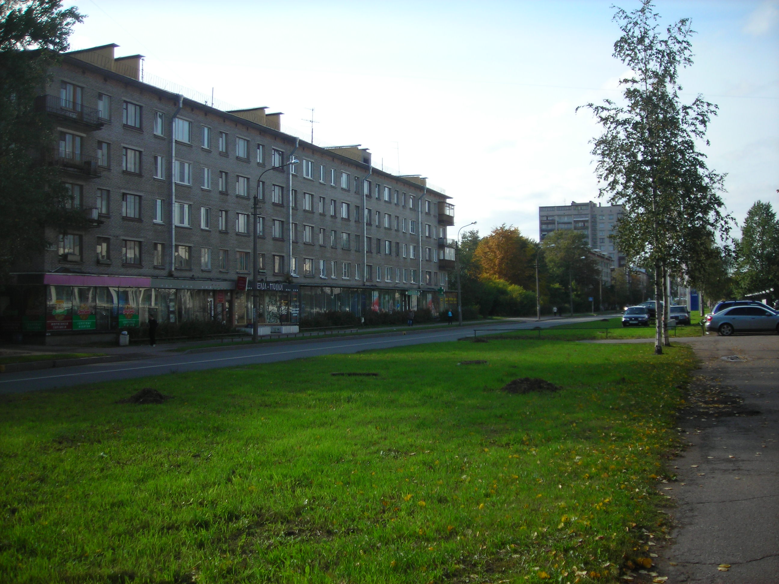 Shkolnaya street, St. Petersburg